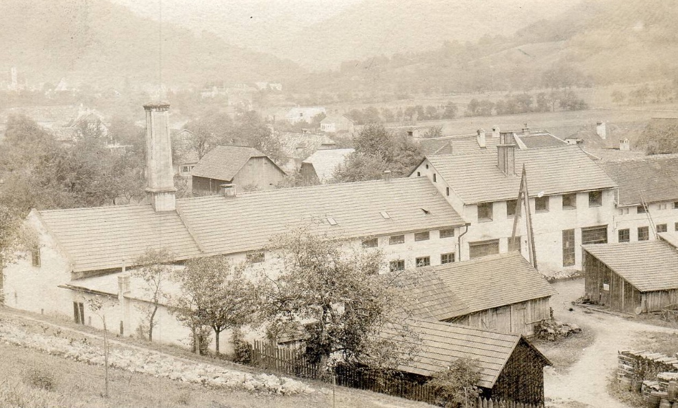 Gaißmayer Schürhagl Fabrik